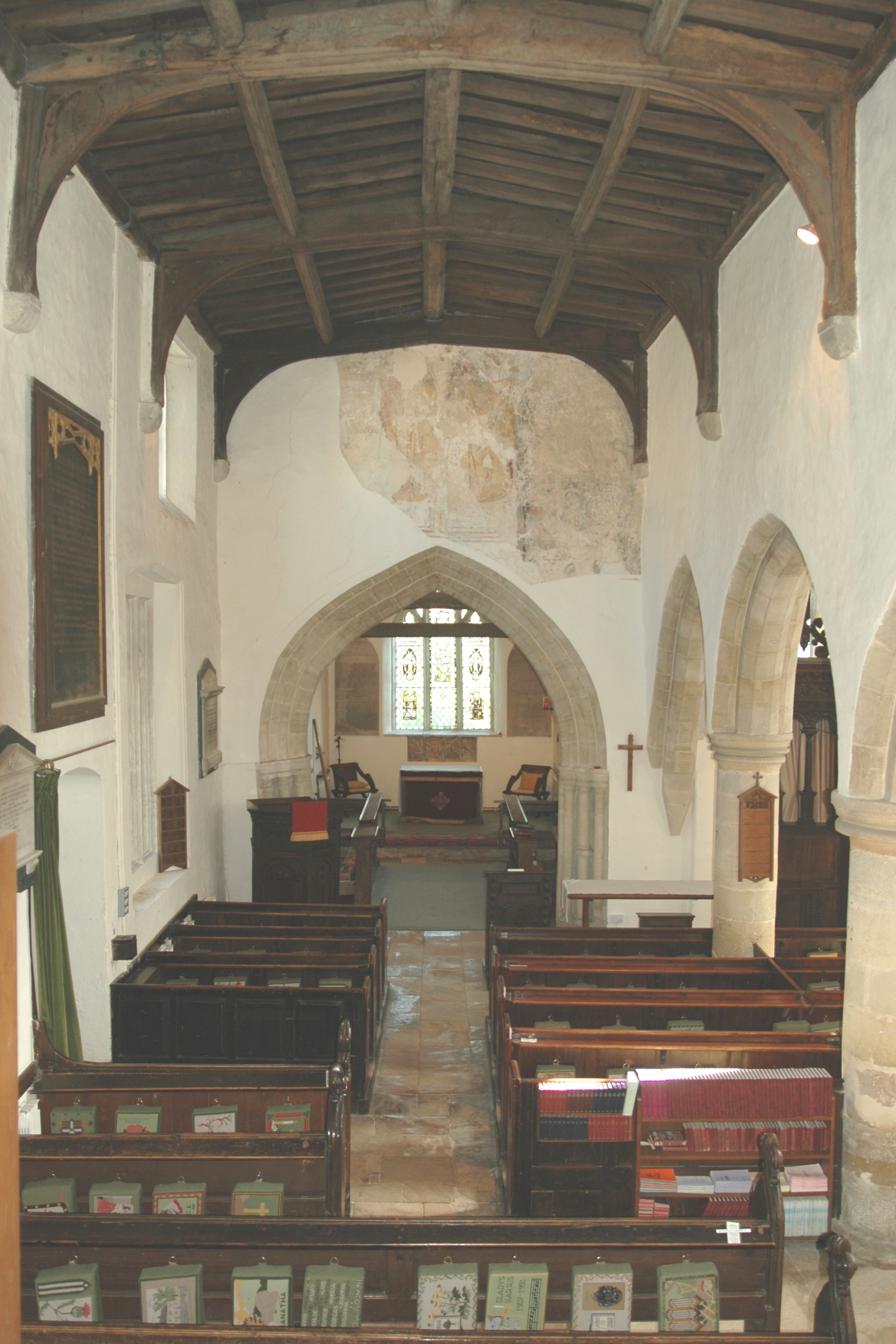 Nave of Church of England parish church of St Bartholomew, Yarnton, Oxfordshire, looking east